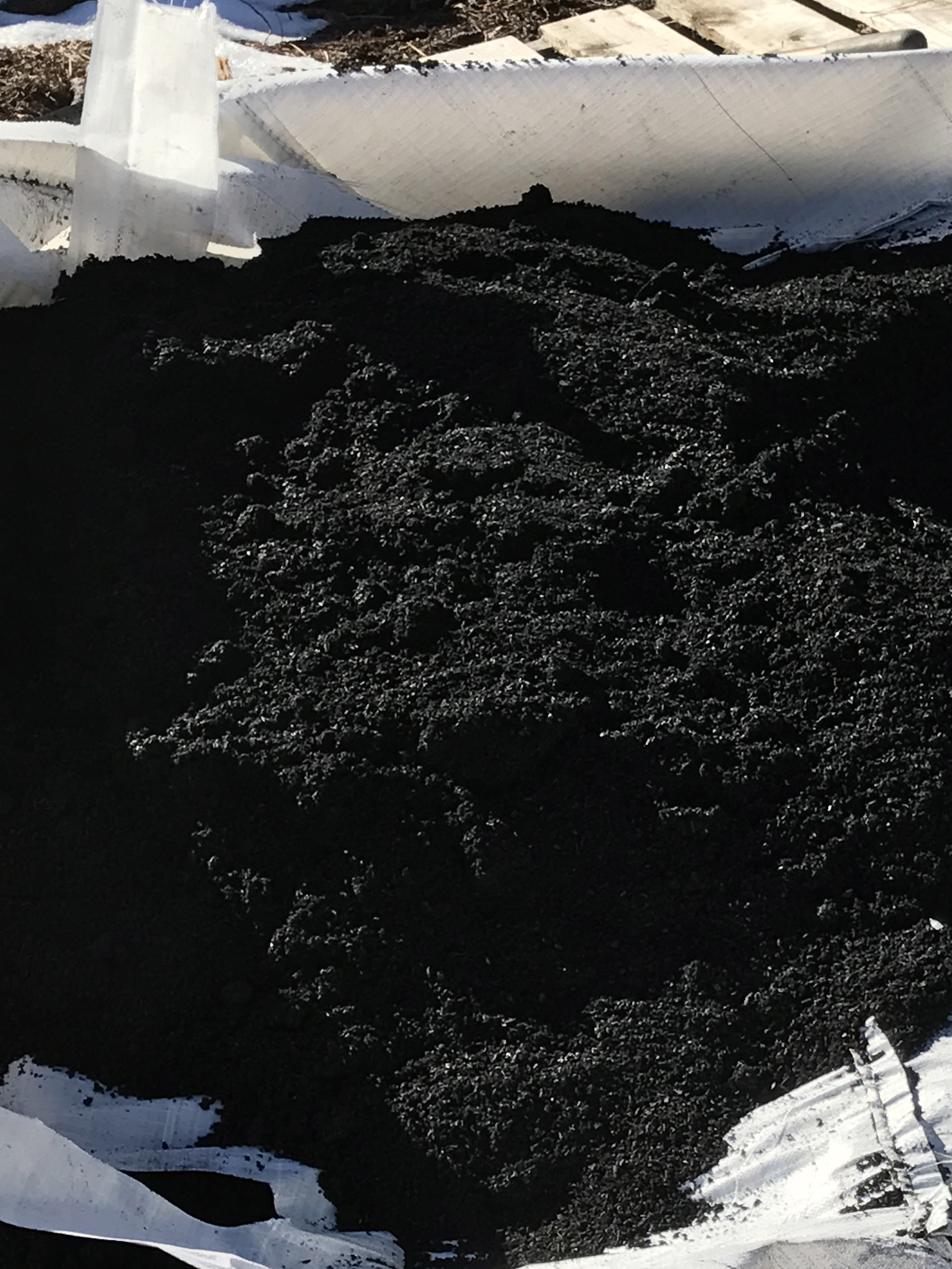 Biochar is a porous carbon substance that helps increase the water-holding capacity of soil. USDA Forest Service photo by Deborah Page-Dumroese.